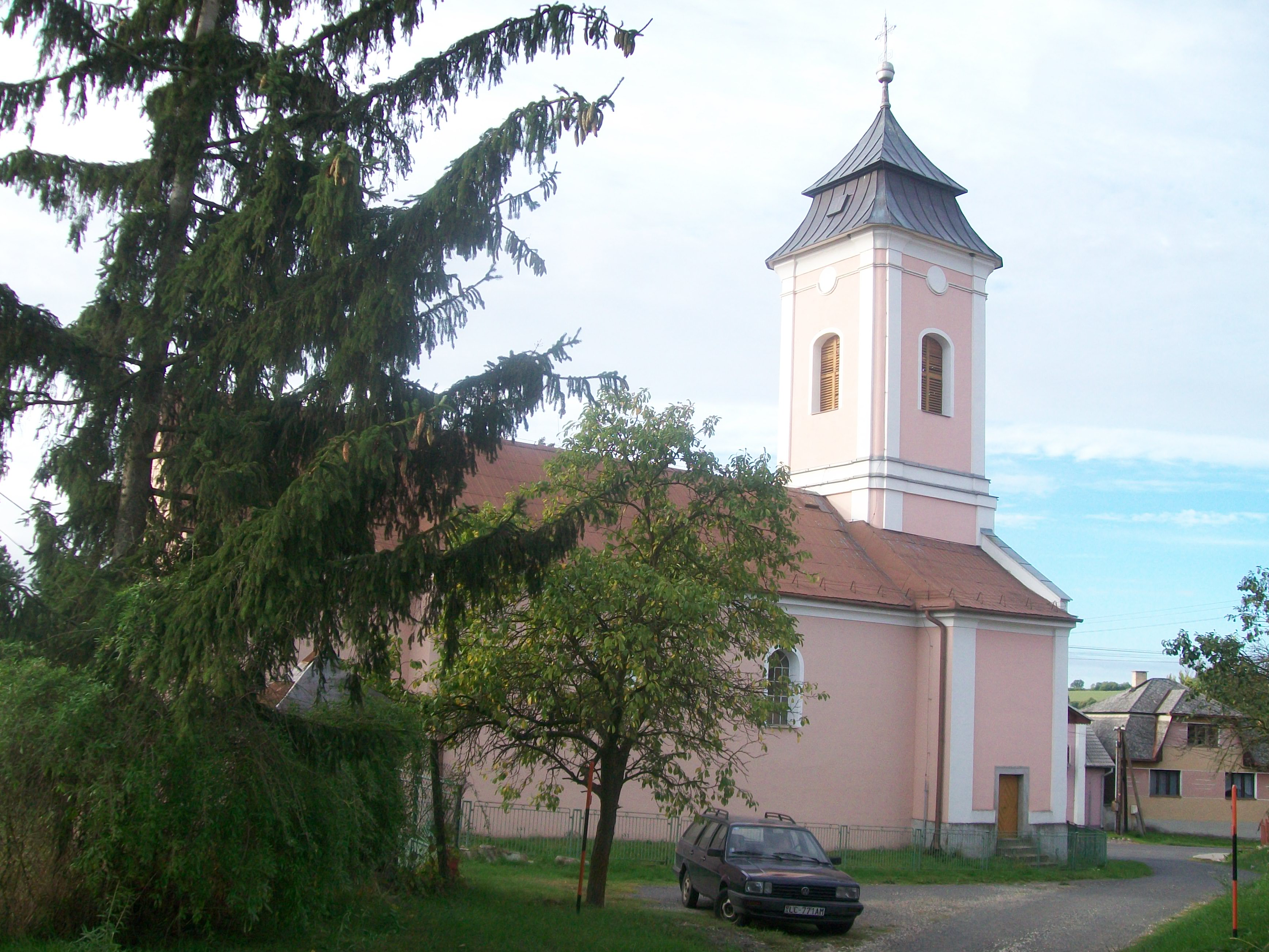 Malé Zlievce - Lutheran Church, Gothic church adapted to renaissance style in 17 century.